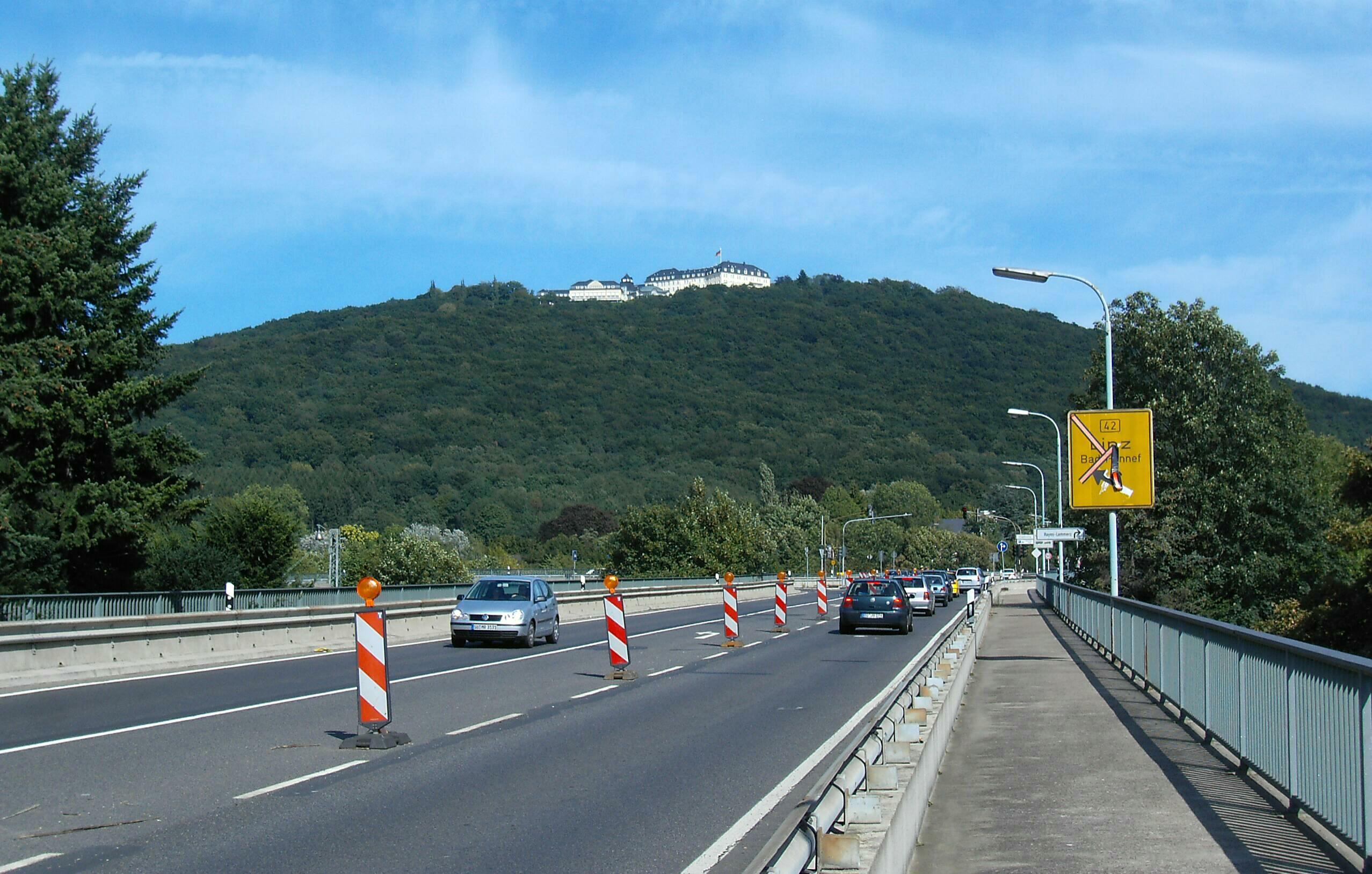 Petersberg and the bridge Siebengebirgsbrücke of the Landesstraße 331 (federal state road) in Königswinter.